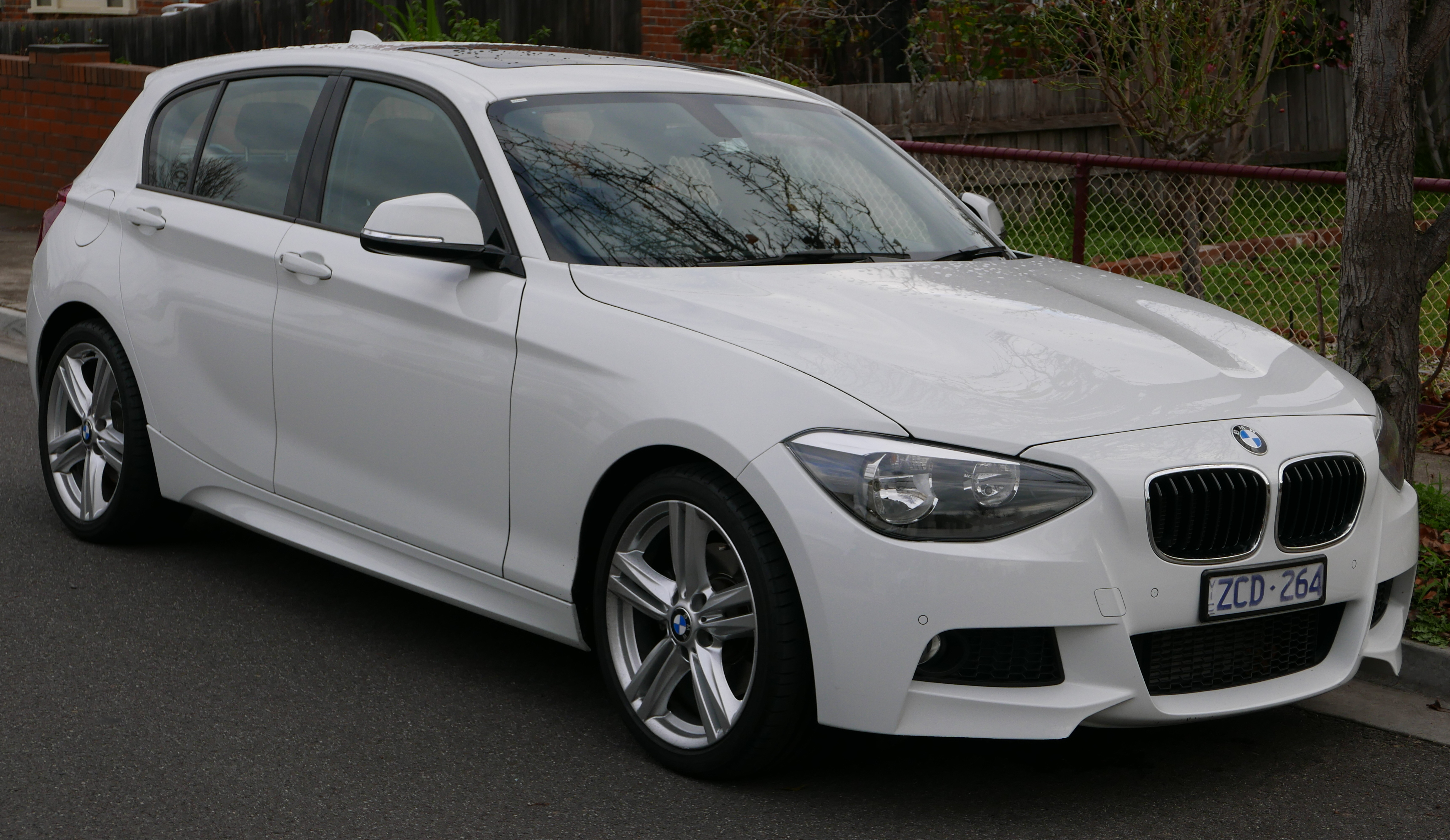 2012 BMW 125i (F20) 5-door hatchback. Photographed in Northcote, Victoria, Australia. Vehicle registration enquiry resultsJurisdictionVictoriaRegistrationZCD264Chassis codeWBA1A52040E610575Engine codeA0020193Compliance date2012-05Year of manufacture2012